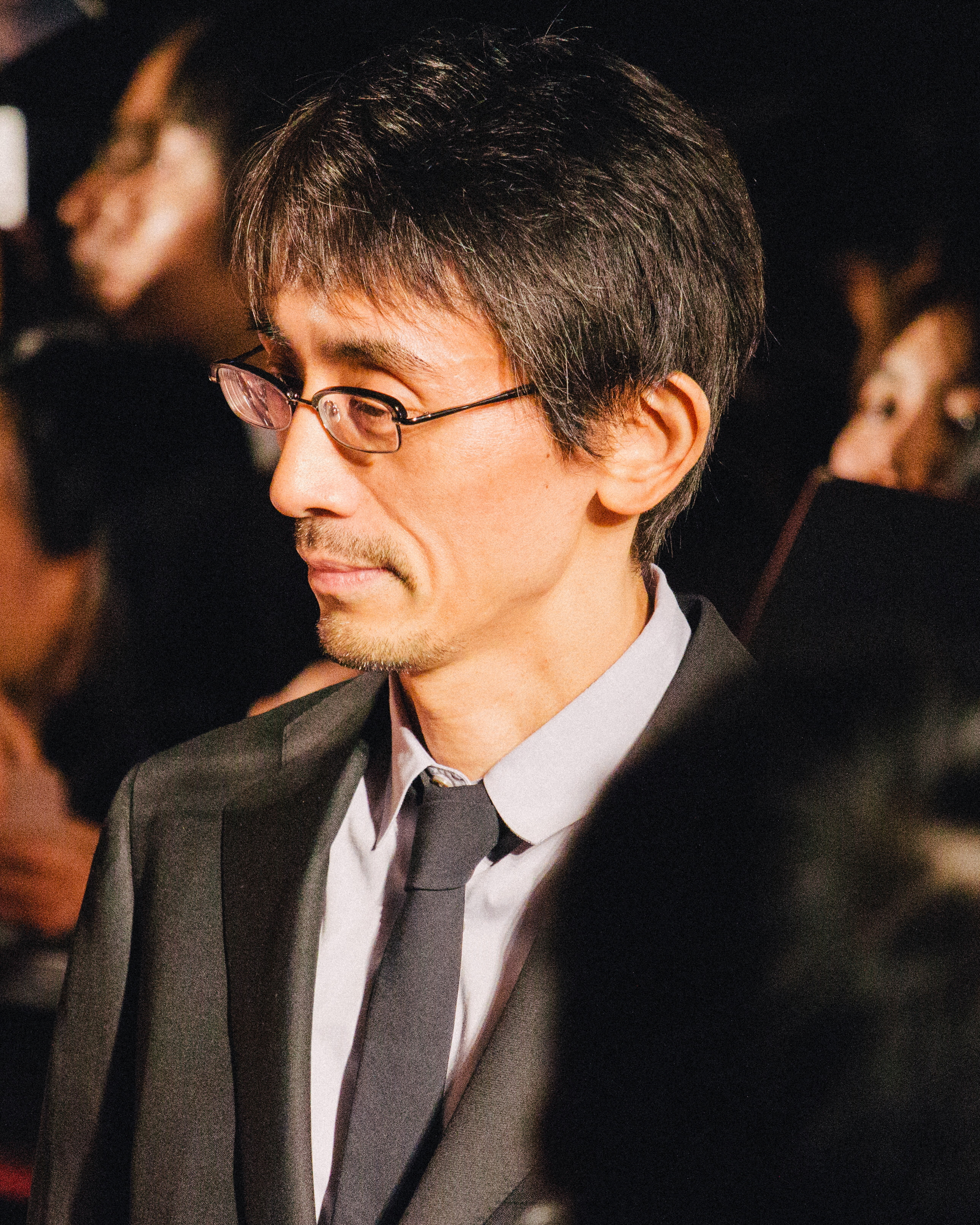 27th Tokyo International Film Festival: Yoshida Daihachi from Pale Moon